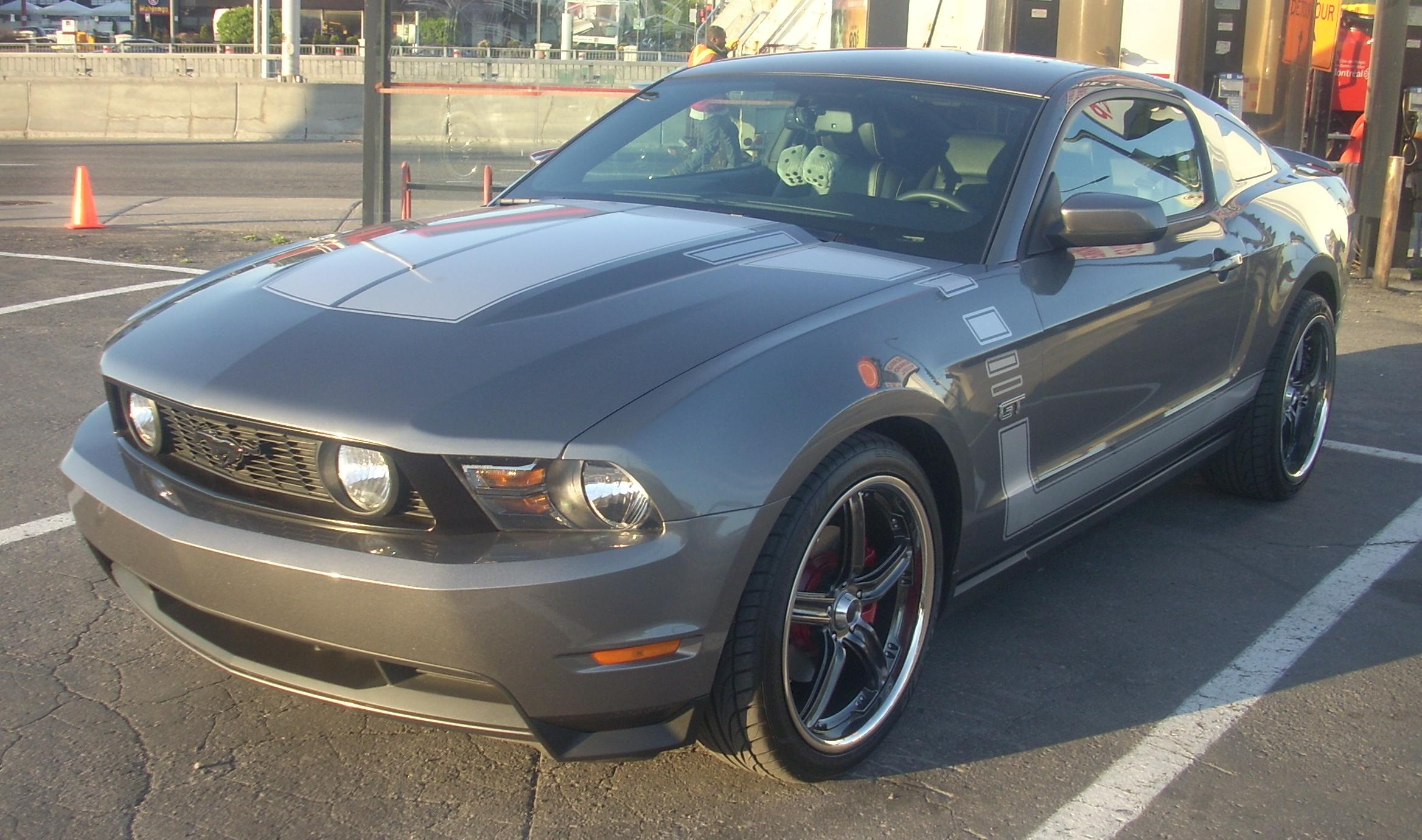 2010 Ford Mustang photographed in Montreal, Quebec, Canada at Gibeau Orange Julep.